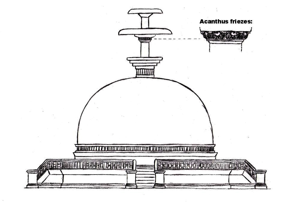 Indo-Greek/Indo-Scythian stupa. Own drawing. Reference: Butkara I, Facenna.